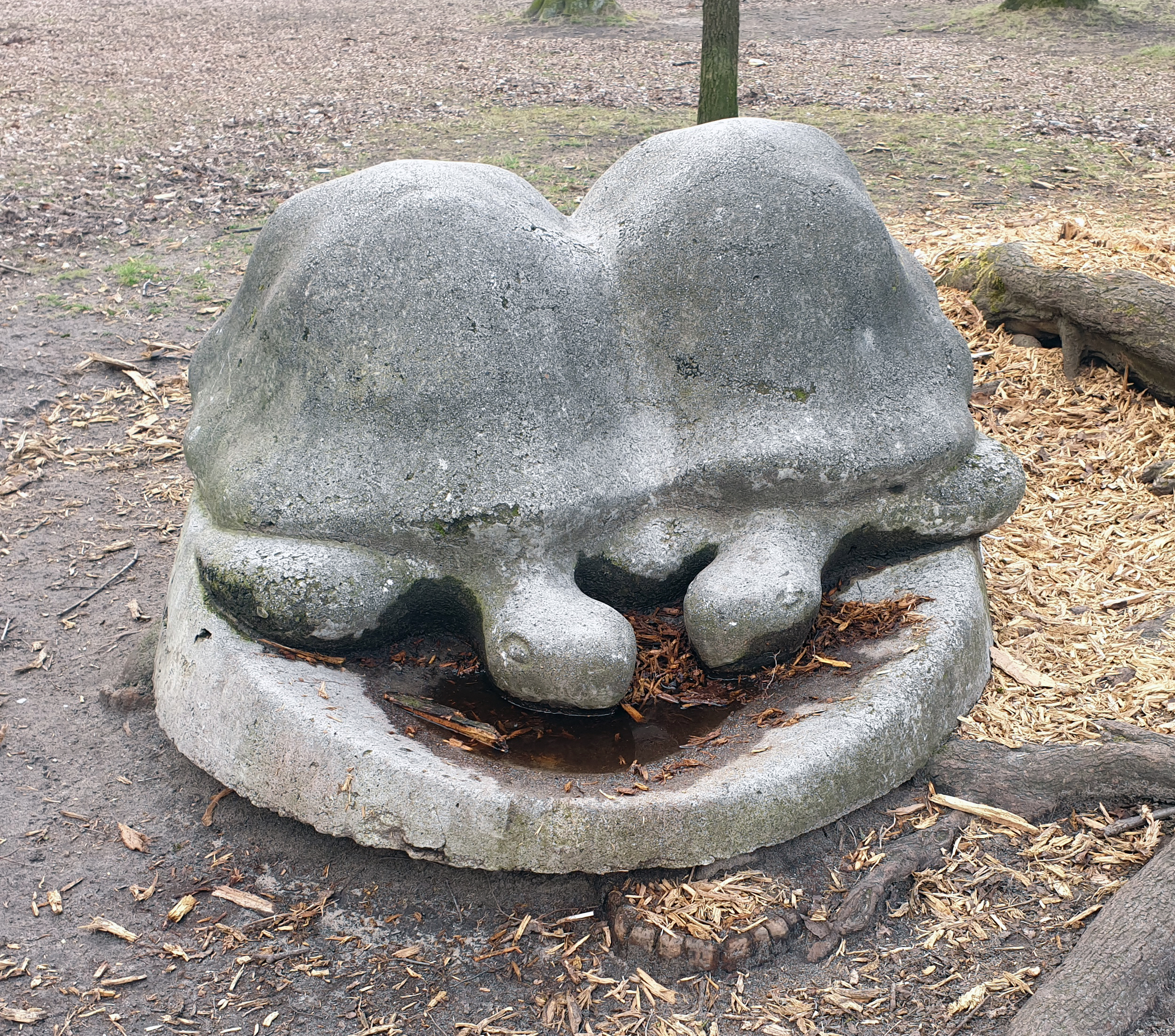 Sculpture, "Schildkrötengruppe" by Christian Theunert, 1957, Heinrich-Laehr-Park, Berlin-Zehlendorf, Germany